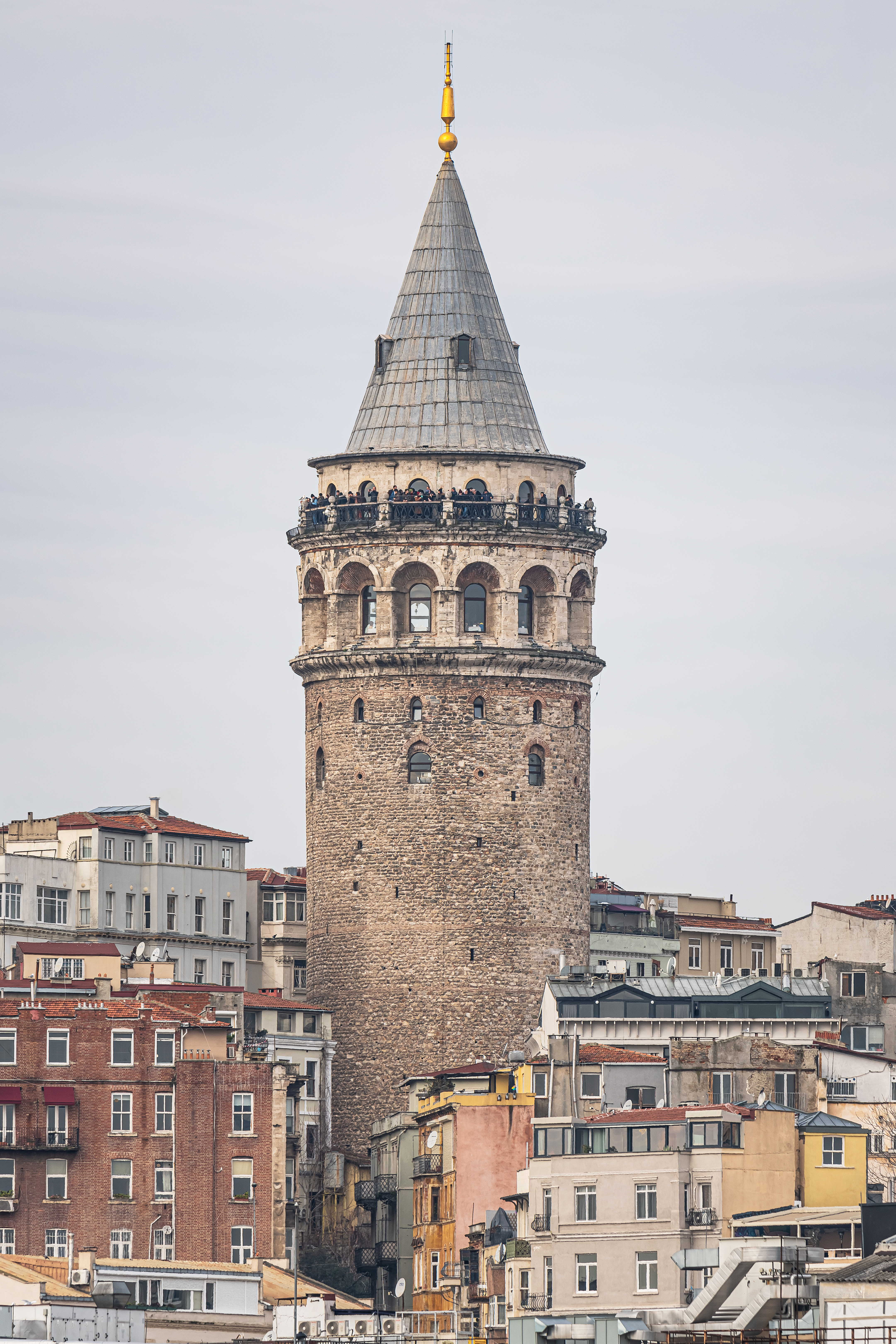 Remote view of Galata Tower in Istanbul, Turkey